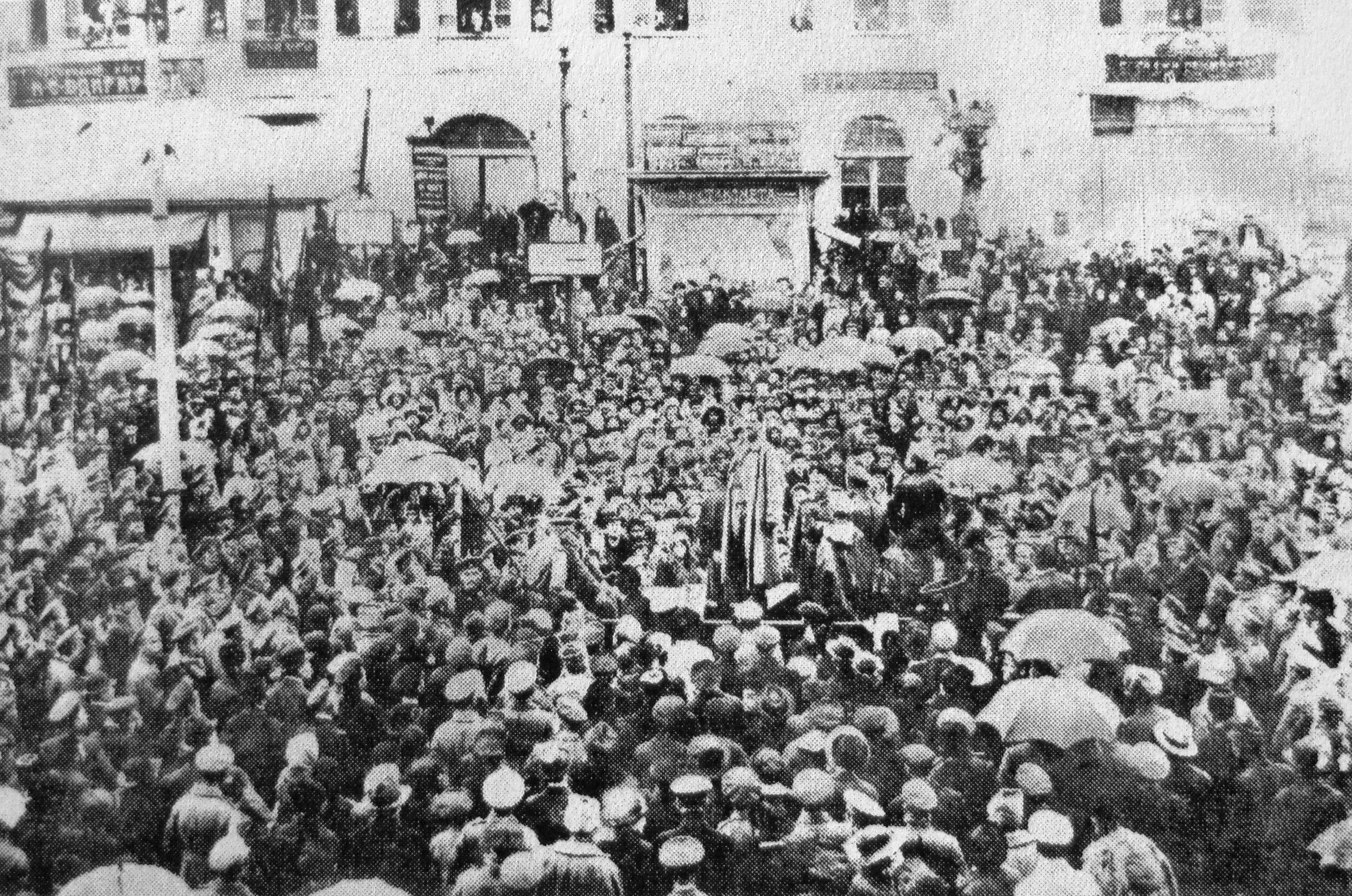 A popular demonstration in Erivan Square, Tiflis Tbilisi. February, 1917